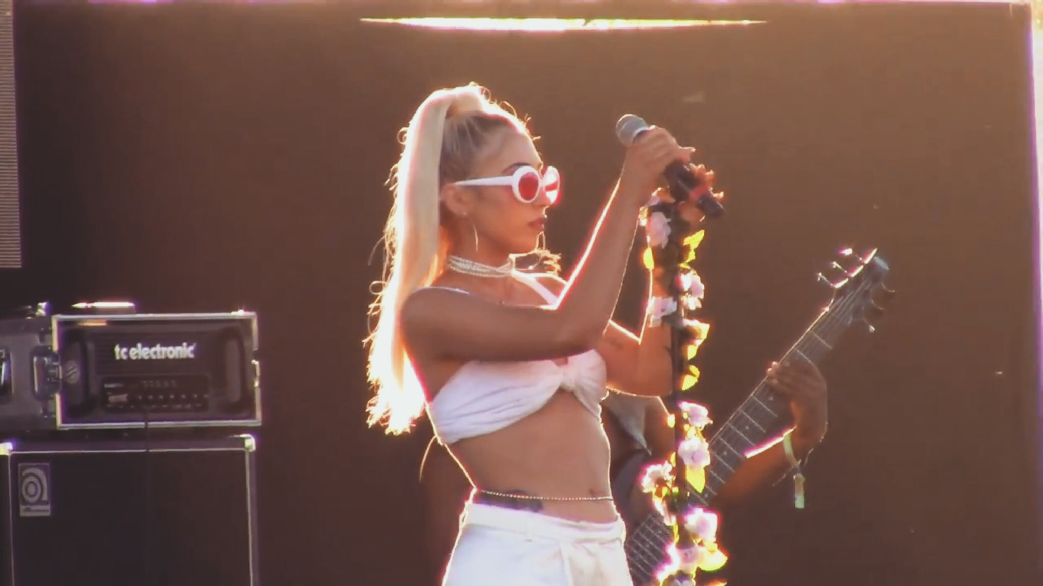 Kali Uchis Performing Live